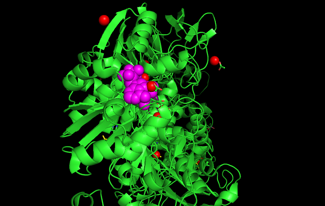 The close-up of the wild-type human sigma (class IV) alcohol dehydrogenase (1D1S). Zinc molecules are depicted as red balls, while NAD molecules are purple.